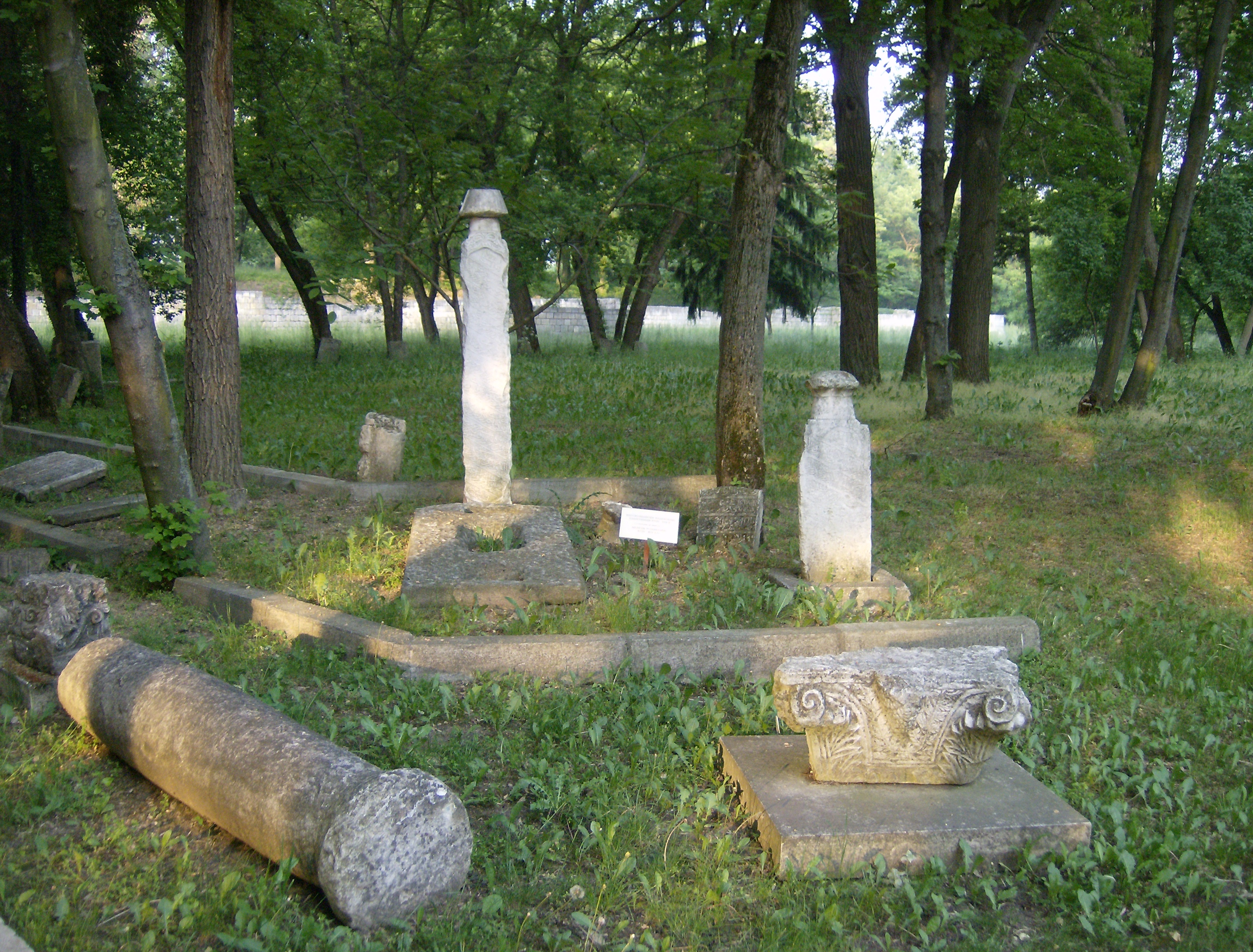 Abrittus